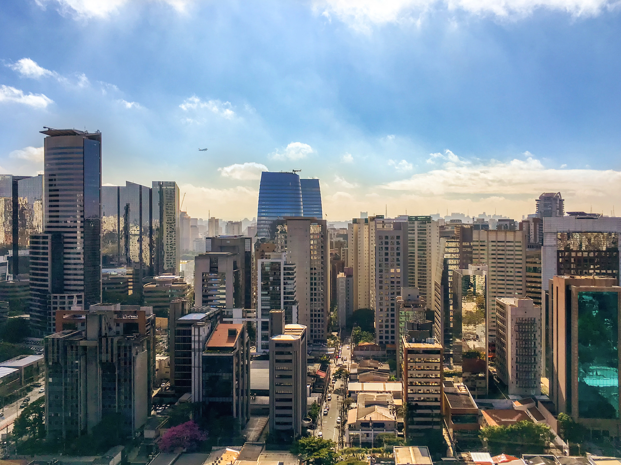 500px provided description: Itaim Bibi [#city ,#buildings ,#architecture ,#Brasil ,#Brazil ,#Sao Paulo]